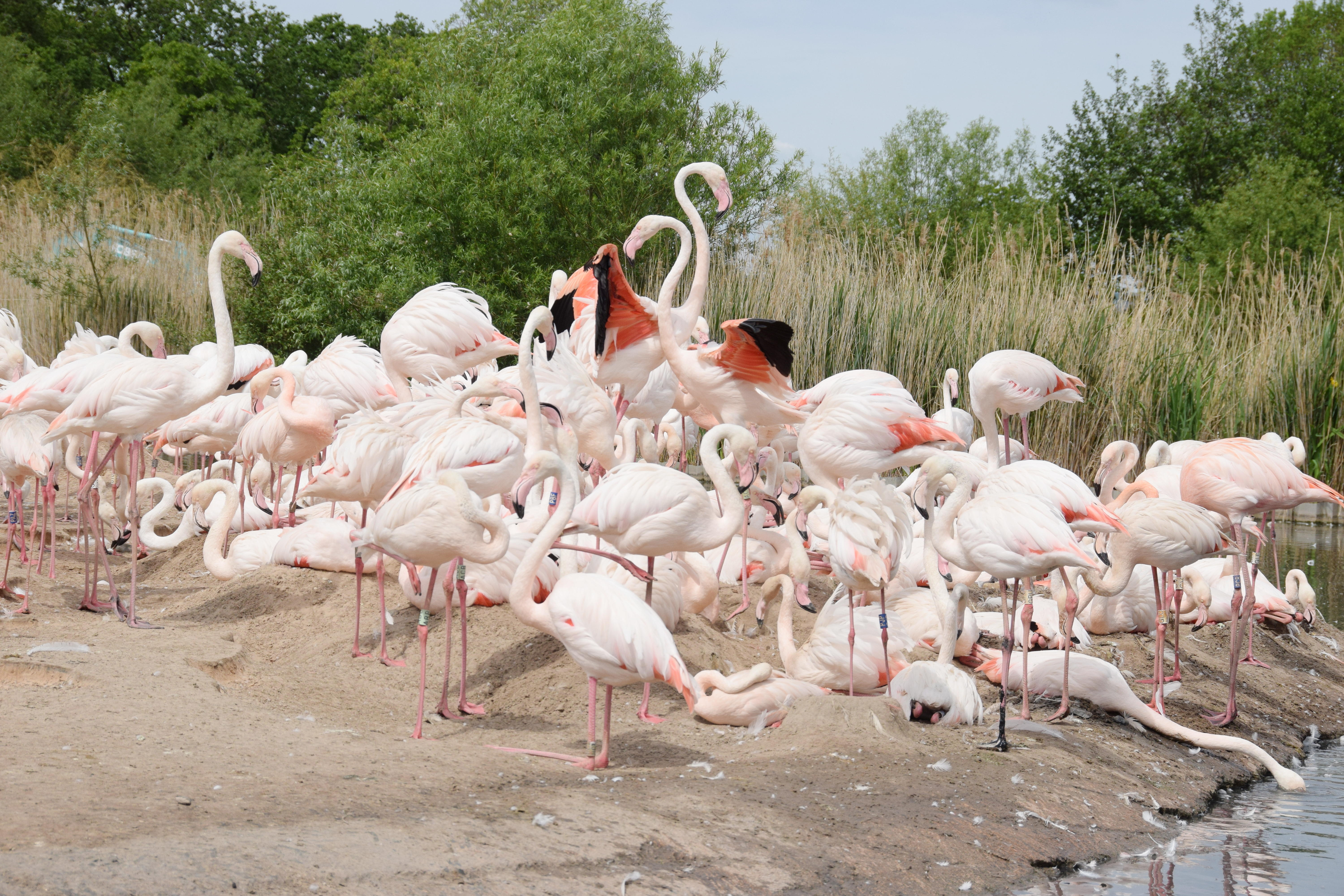 Greater Flamingo at Slimbridge Wetland Centre, Gloucestershire, England. The Centre keeps all six species of flamingo (Chilean, James’s, Caribbean, Greater, Lesser and Andean).